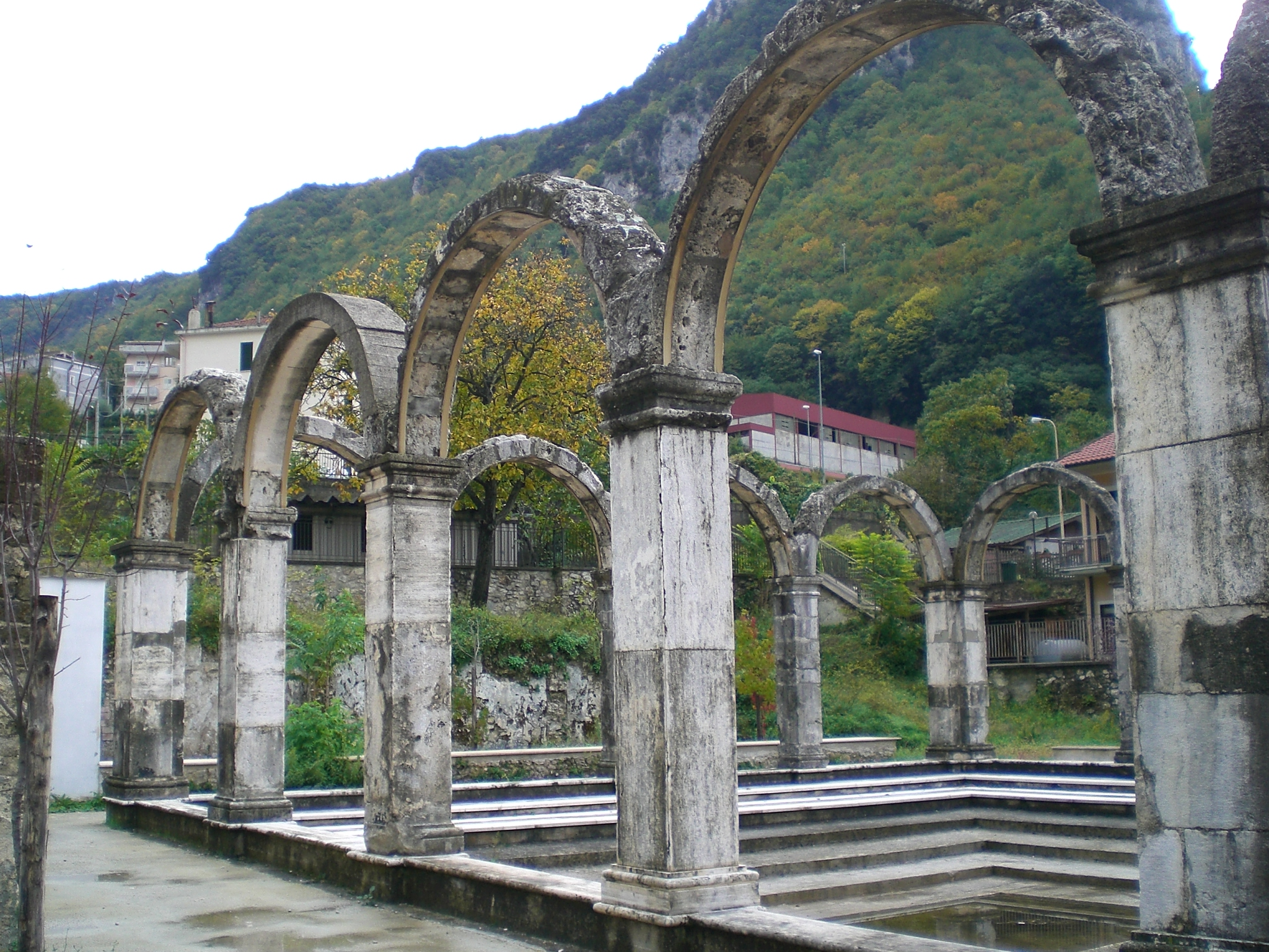 Concentration camps of Campagna